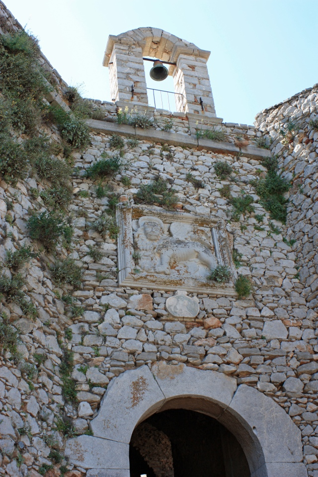 Lions of Venice in fortress Palamidi. Nafplion, Greece